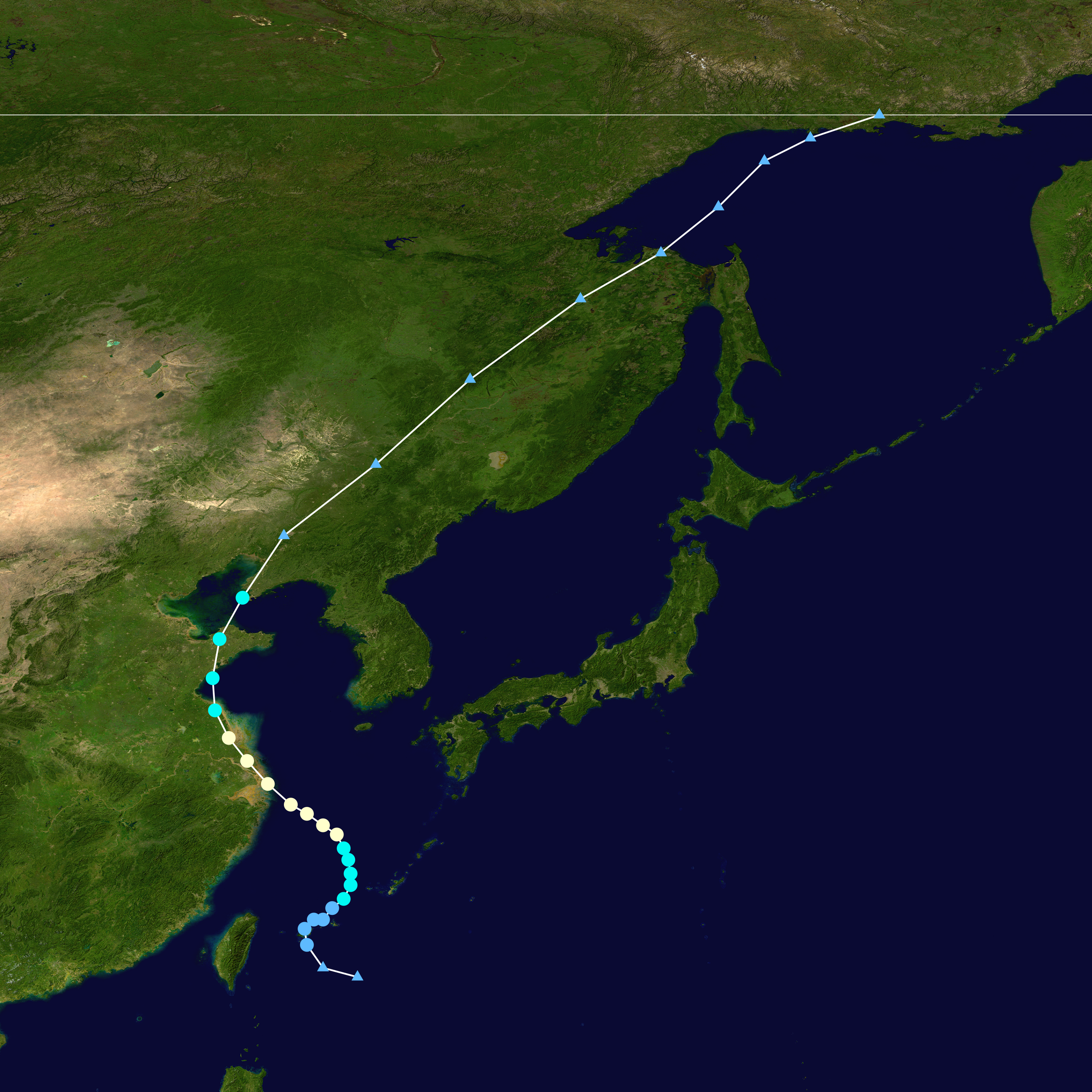 Typhoon Mamie 1985 track. Uses the color scheme from the Saffir-Simpson Hurricane Scale.